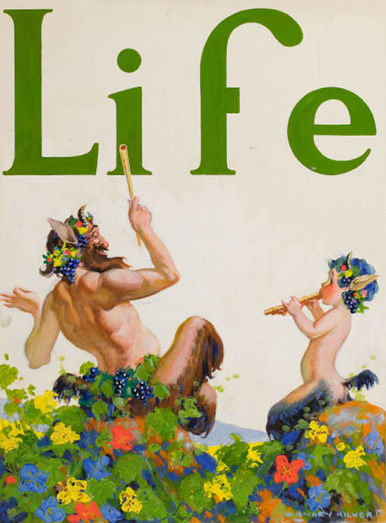 LIFE Magazine Cover (26 Apr 1923)